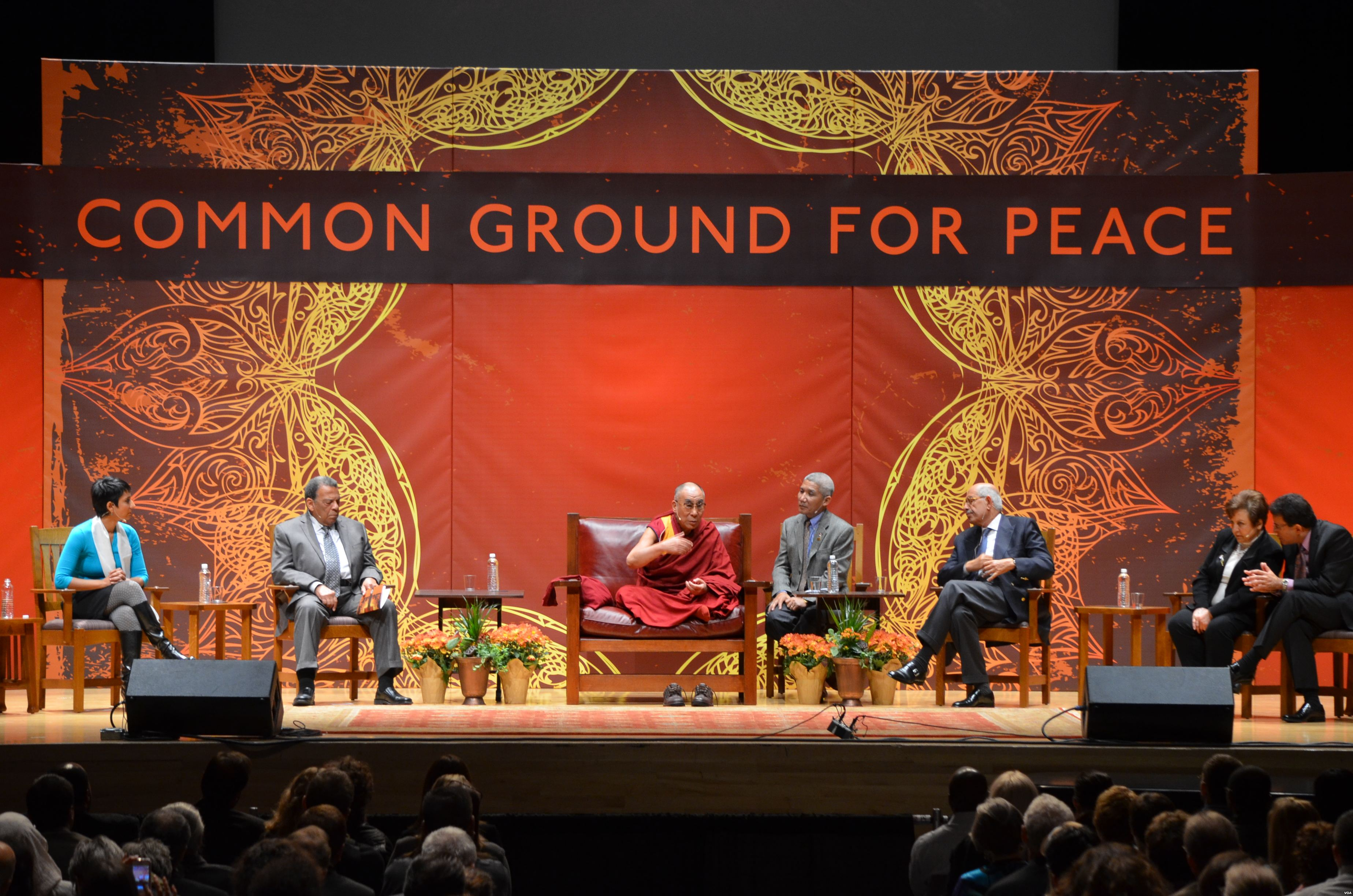 Dalai Lama at Syracuse University